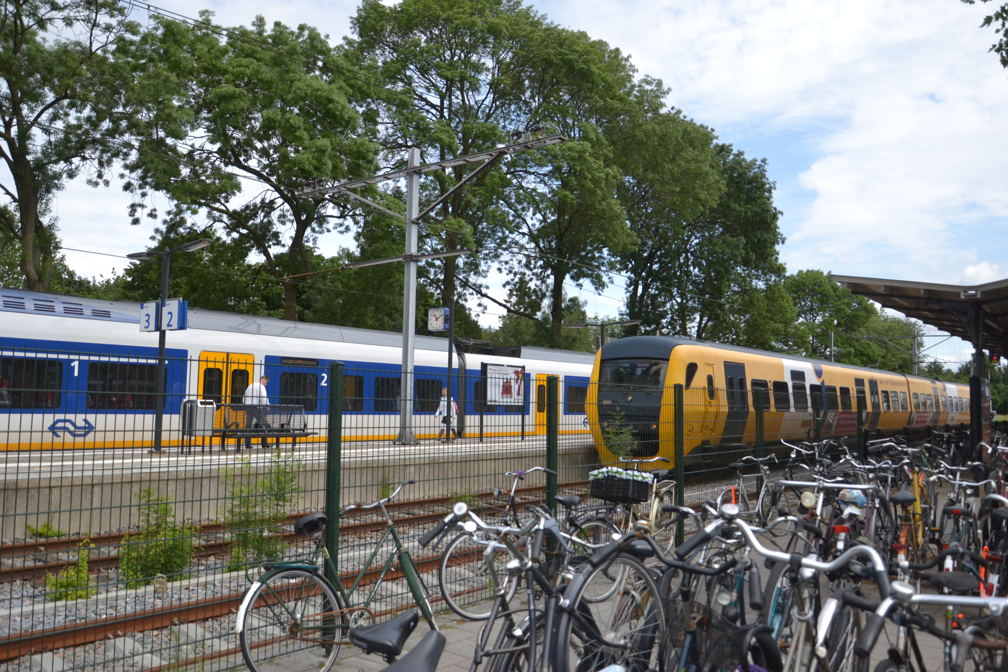 Two different train services meeting at Train Station Tiel, the Netherlands.